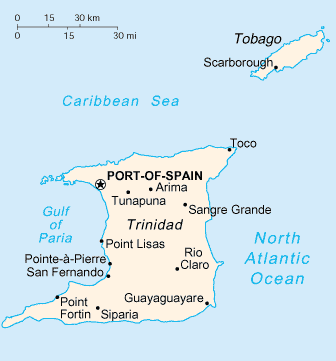 Map of Trinidad and Tobago, showing major islands and towns.